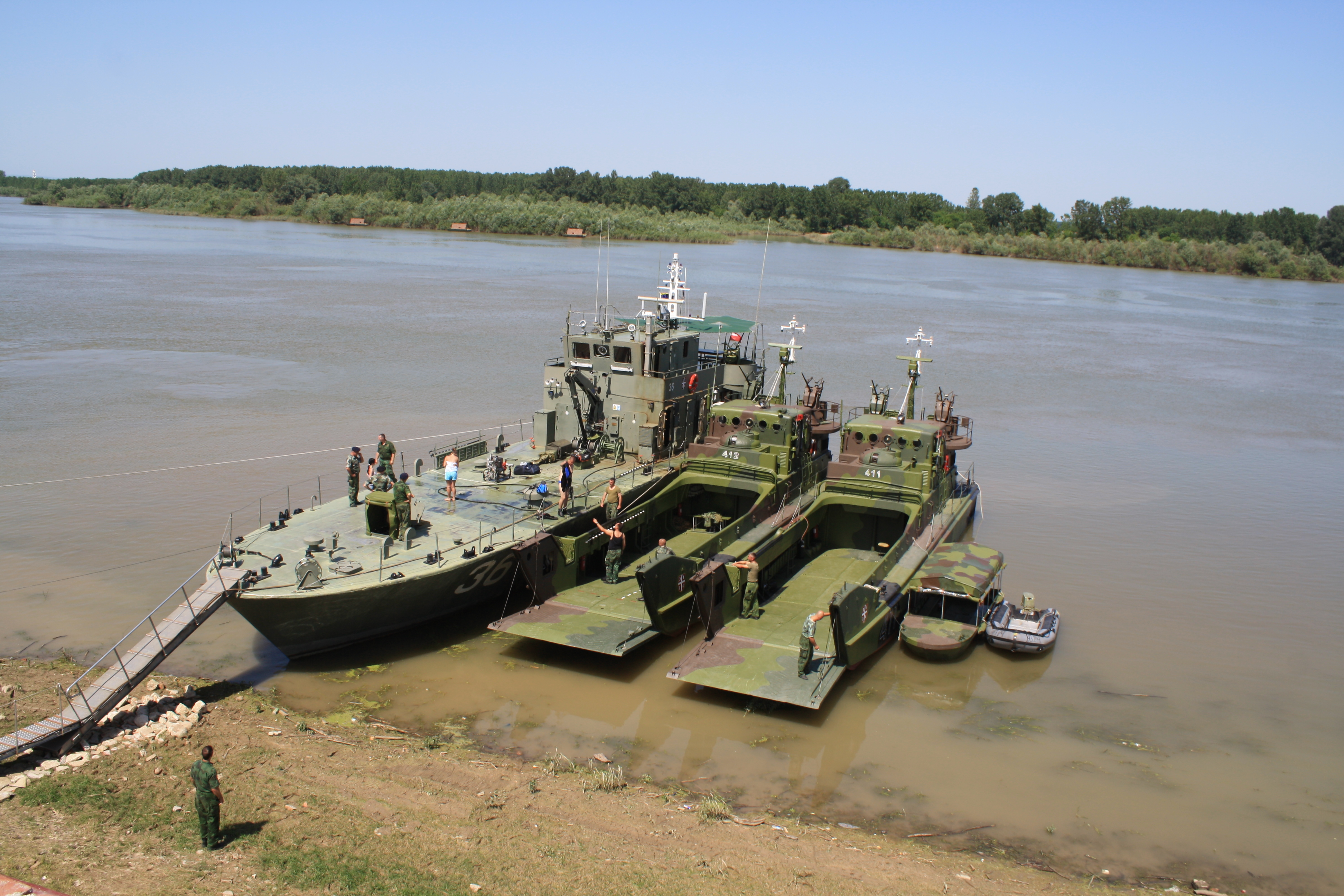 The assault boats DJČ-411 and DJČ-412 and river station for degauss RSRB-36 "Šabac" of Serbian River Flotilla.